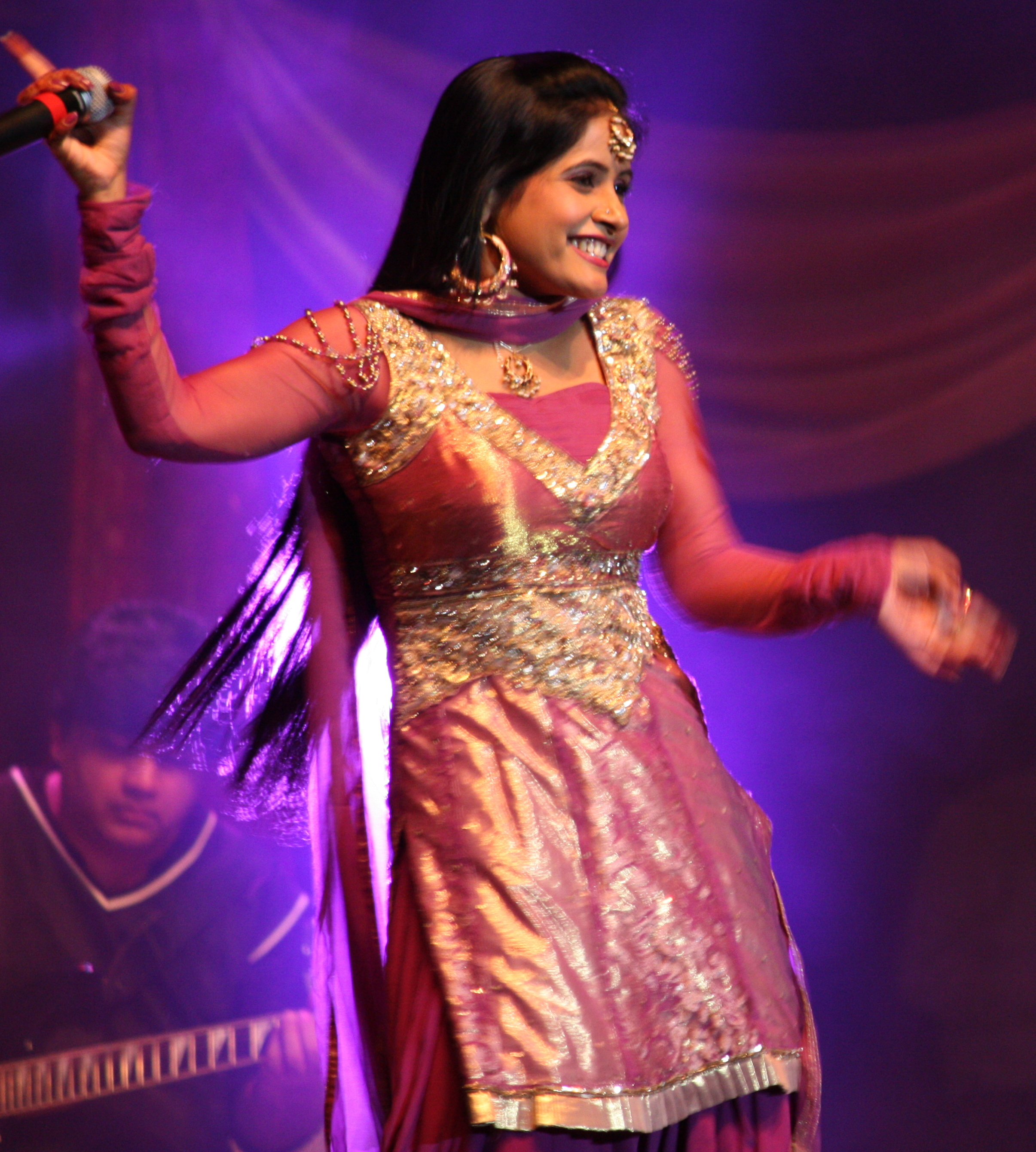 Miss Pooja has se performing in Punjabi Virsa 2009 at Canada's Wonderland, Toronto, Ontario, Canada.